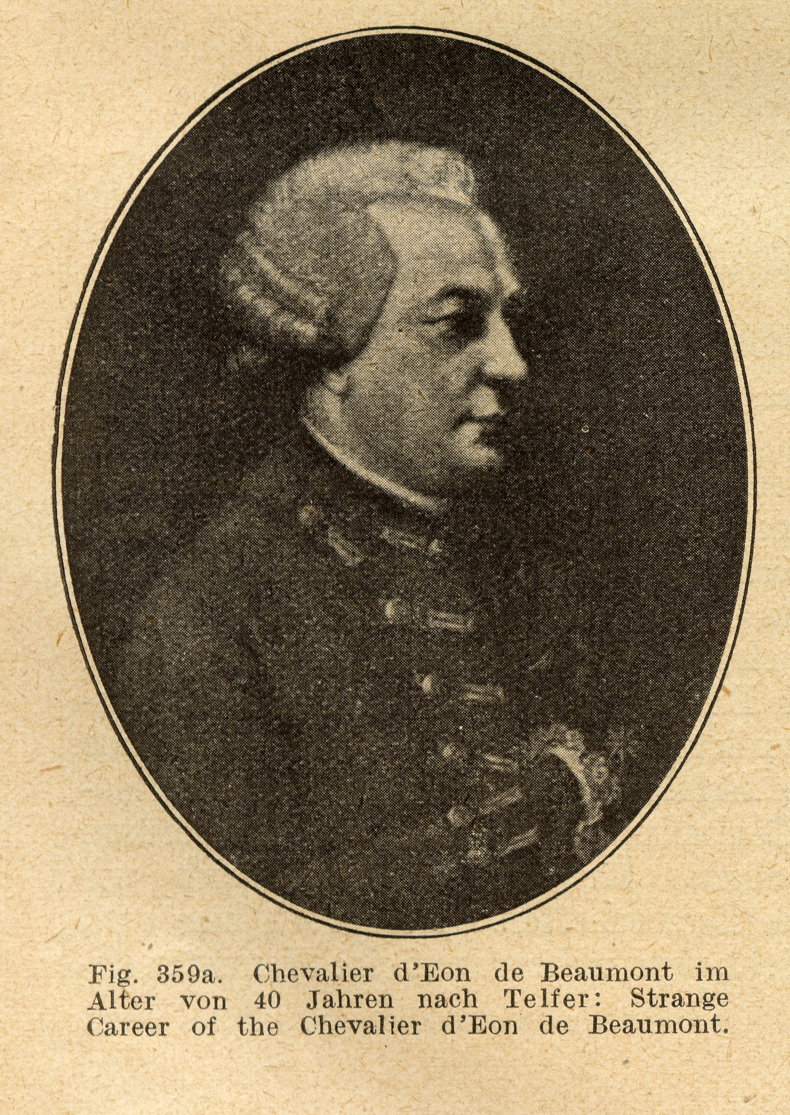 Chevalier d'Éon in male guise, portrait by Jacques-Gabriel Huquier (1725–1805). From the book: Albert Moll, Handbuch der Sexualwissenschaften, Verlag Von F.C. Vogel, Leipzig 1921, p. 627.